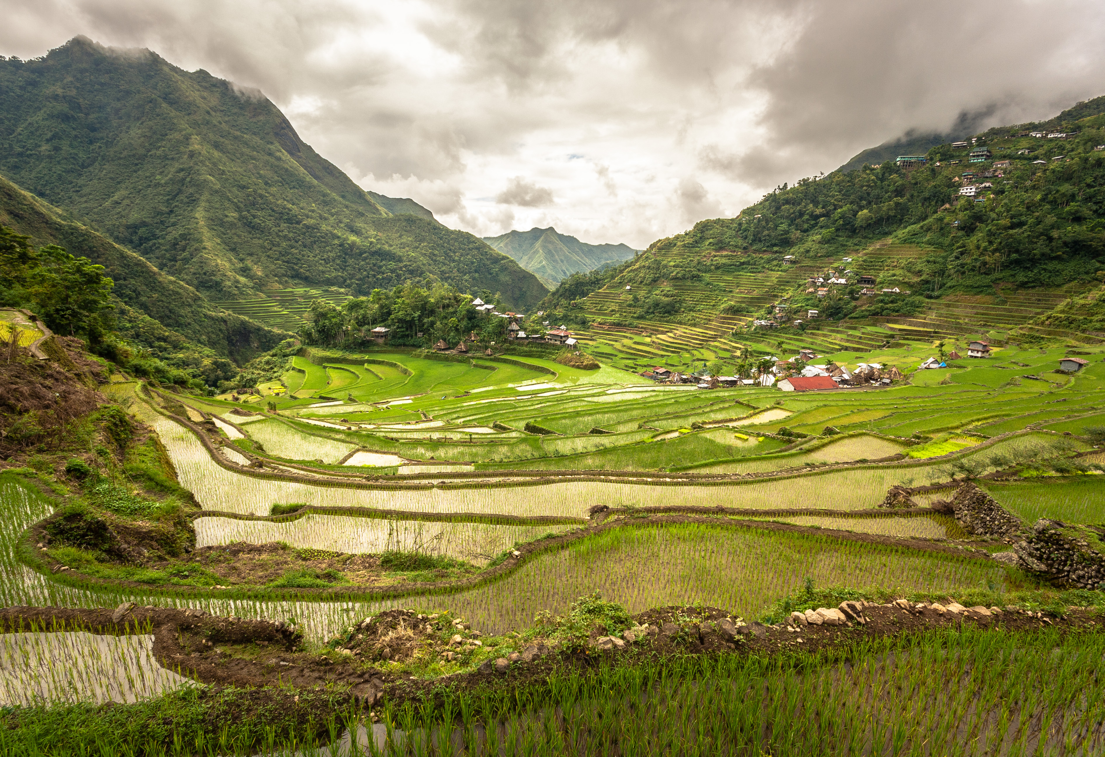 This photo was taken while starting the short walk from the Batad village to its waterfall. We were among the rice fields when I saw this view that took my breath away!